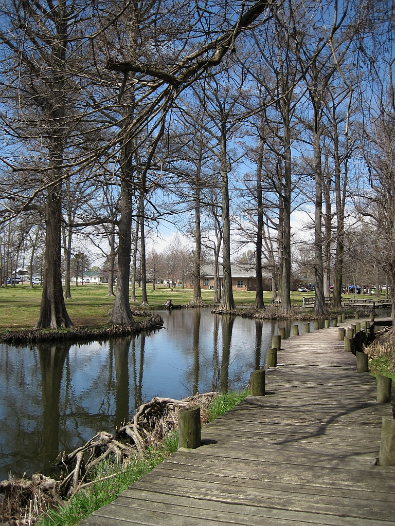 Reelfoot Lake State Park, Obion County, Tennessee. Visitor center boardwalk.